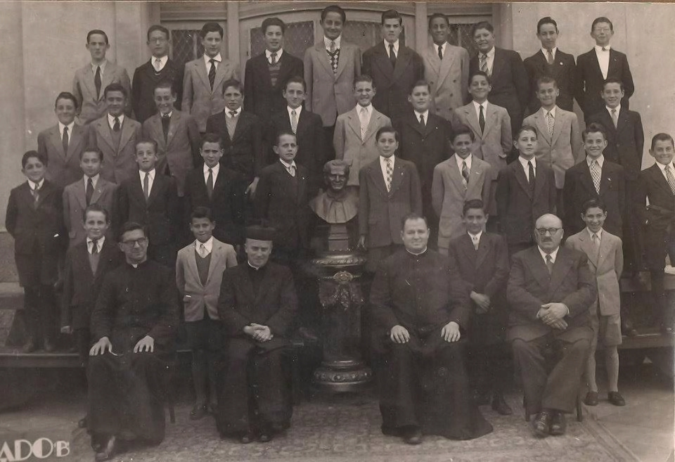 "Jorge Mario Bergoglio", "Pope Francis" as a student (4th from left, middle row), studied chemistry before joining the priesthood